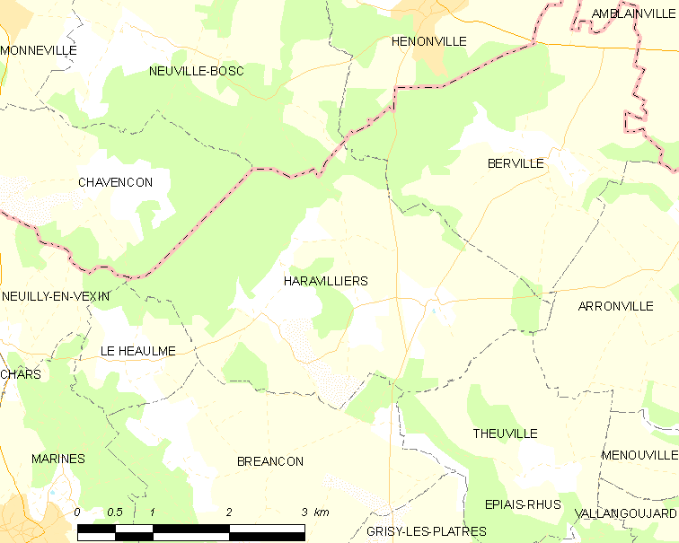 Map of French municipality Haravilliers